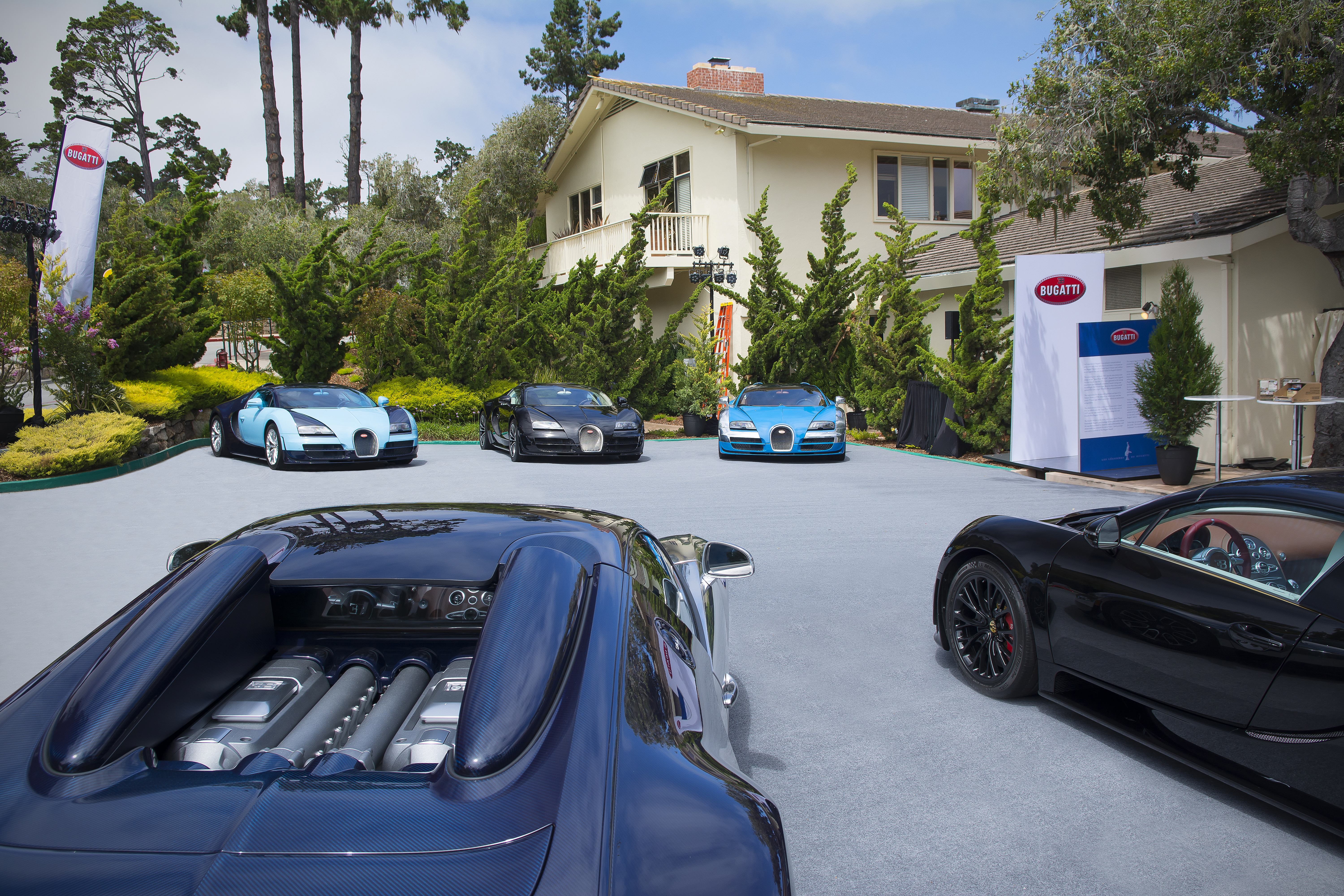 Bugatti Veyron Grand Sport Vitesse Legends Editions at The Quail show during Monterey Car Week 2014. - Jean-Pierre Wimille - Jean Bugatti - Meo Costantini - Black Bess - Ettore Bugatti